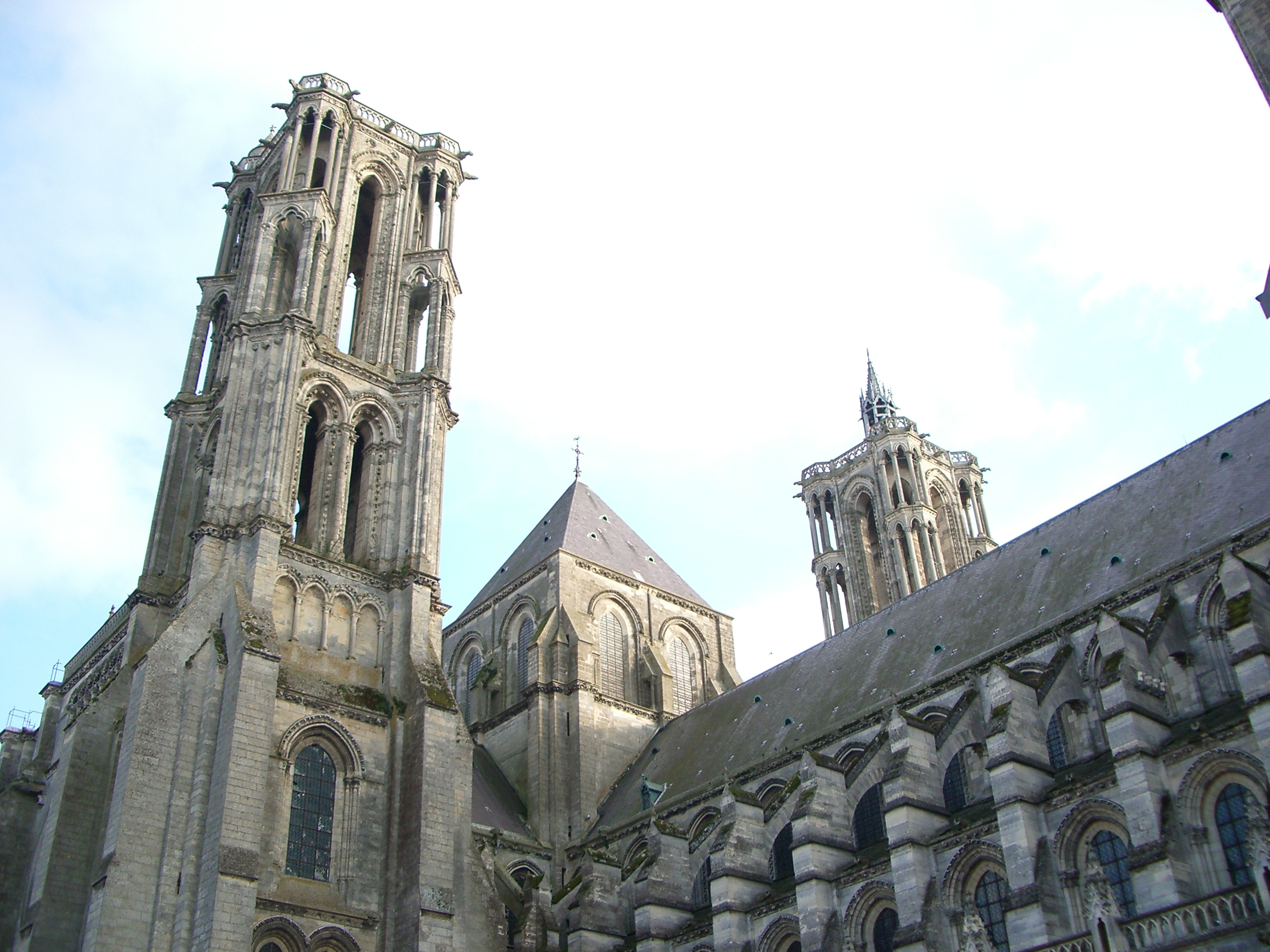 Laon's cathedral, Aisne, France